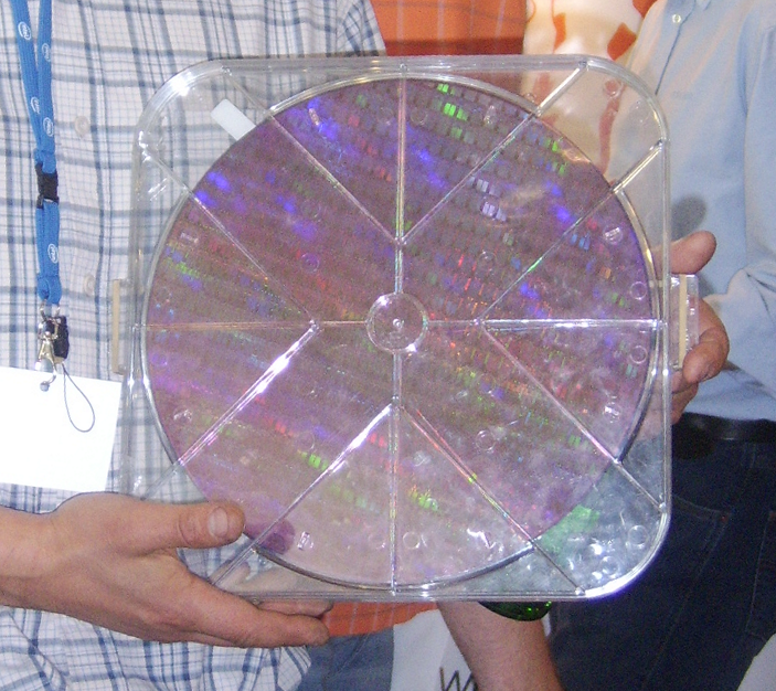 Silicon Wafer (Intel) Intel Channel Conference, 2008 Poland Date: 29.05.2008 Time: 18.55 City: Warszawa Location: Hotel Novotel Airport, ul. 1 Sierpnia 1